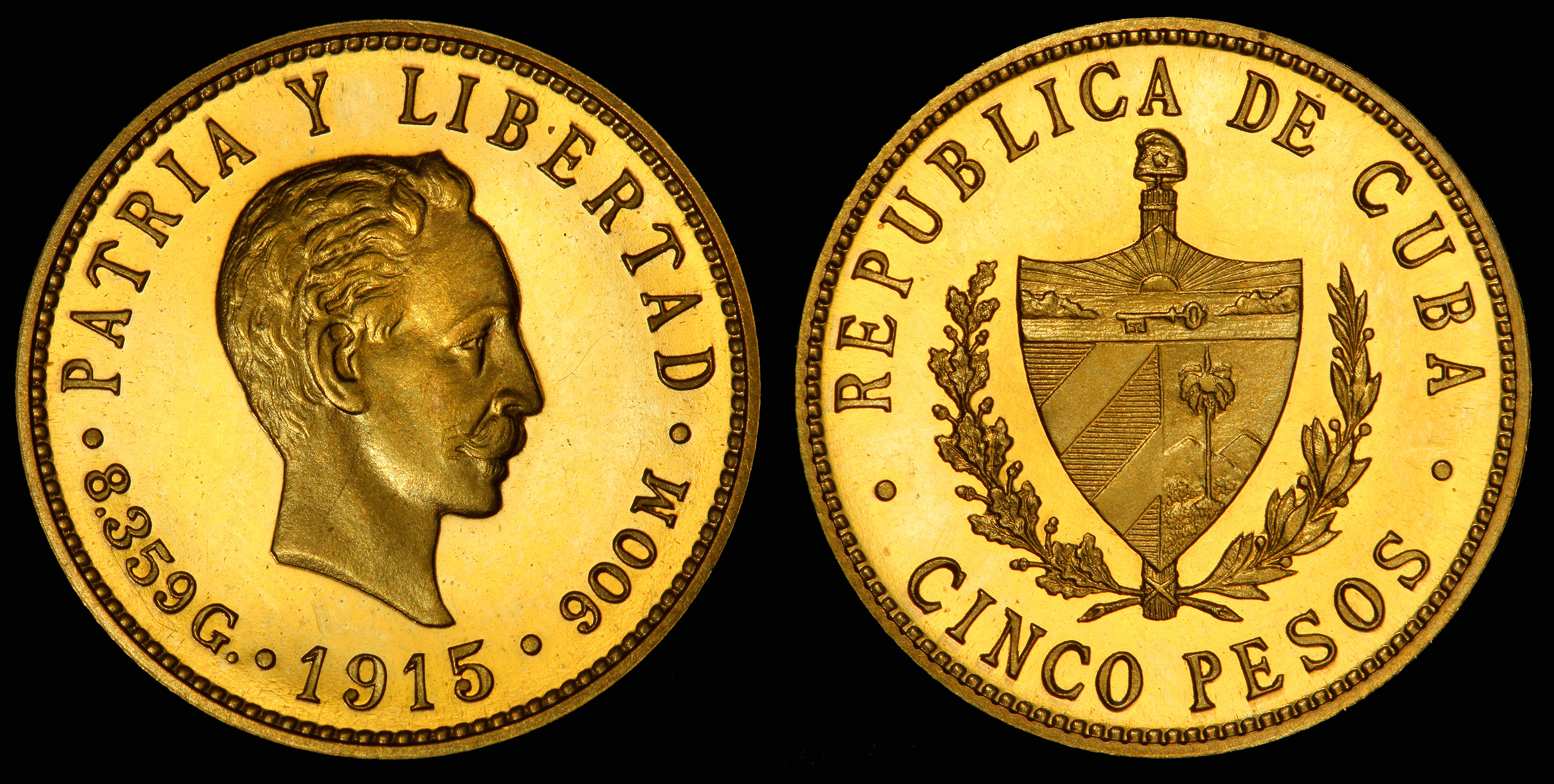 Cuba 1915 5 PesosCuban gold pesos were engraved by Charles Edward Barber, Chief Engraver of the United States Mint and struck at the Philadelphia Mint between 1915 and 1916.